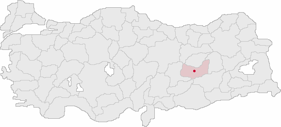 Shows the location of the province Elazığ in Turkey Created by Florenco.